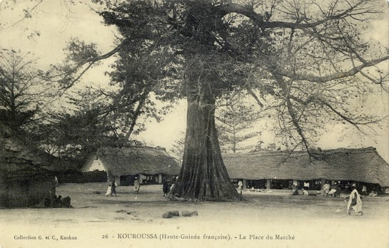 The market square in Kouroussa (modern Guinea) from a French postcard published in 1911.